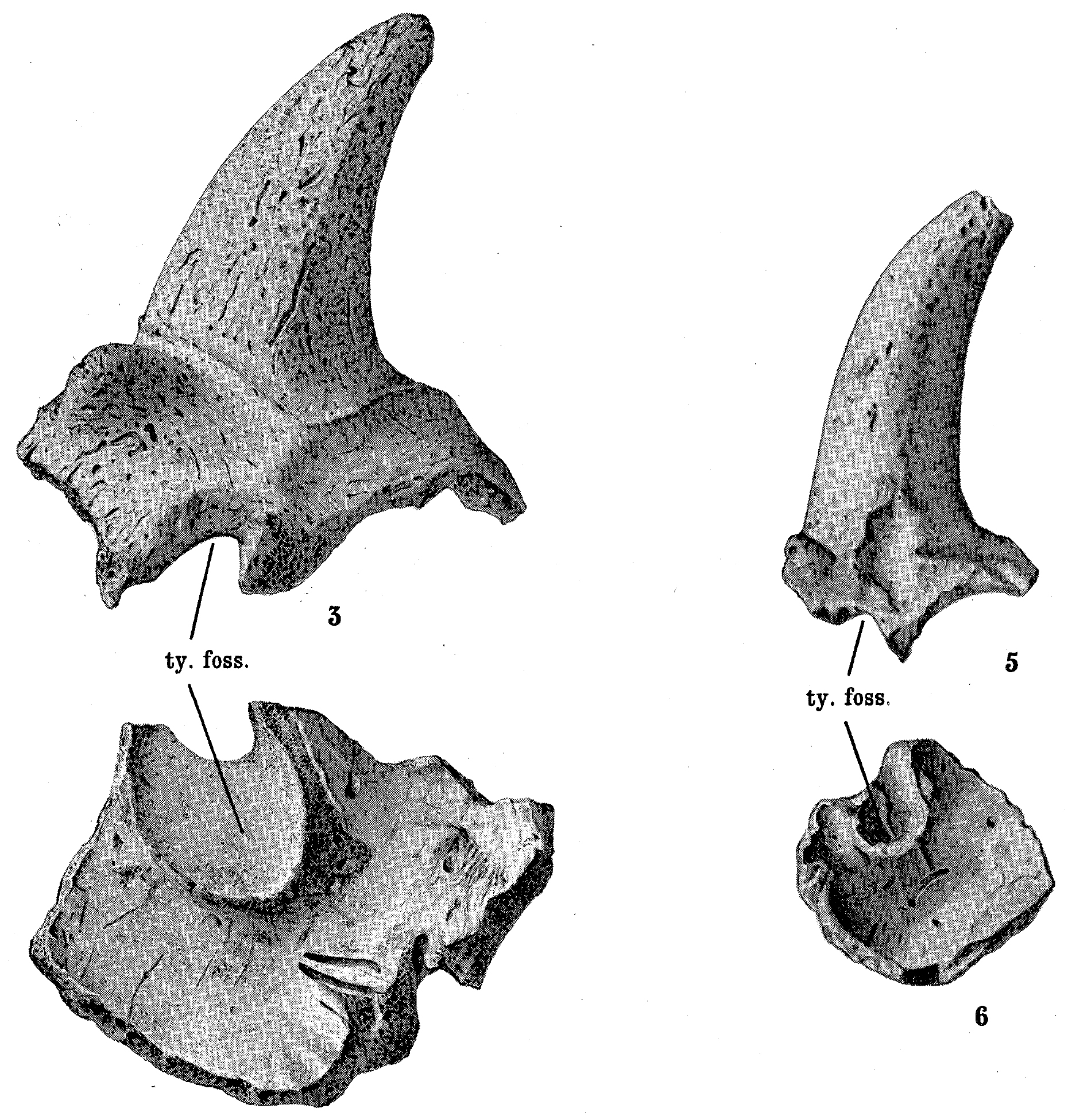 Comparison between the horn cores of a Meiolania platyceps (AM F16866, left) and Meiolania mackayi (holotype AM Fl7720, right) specimen.